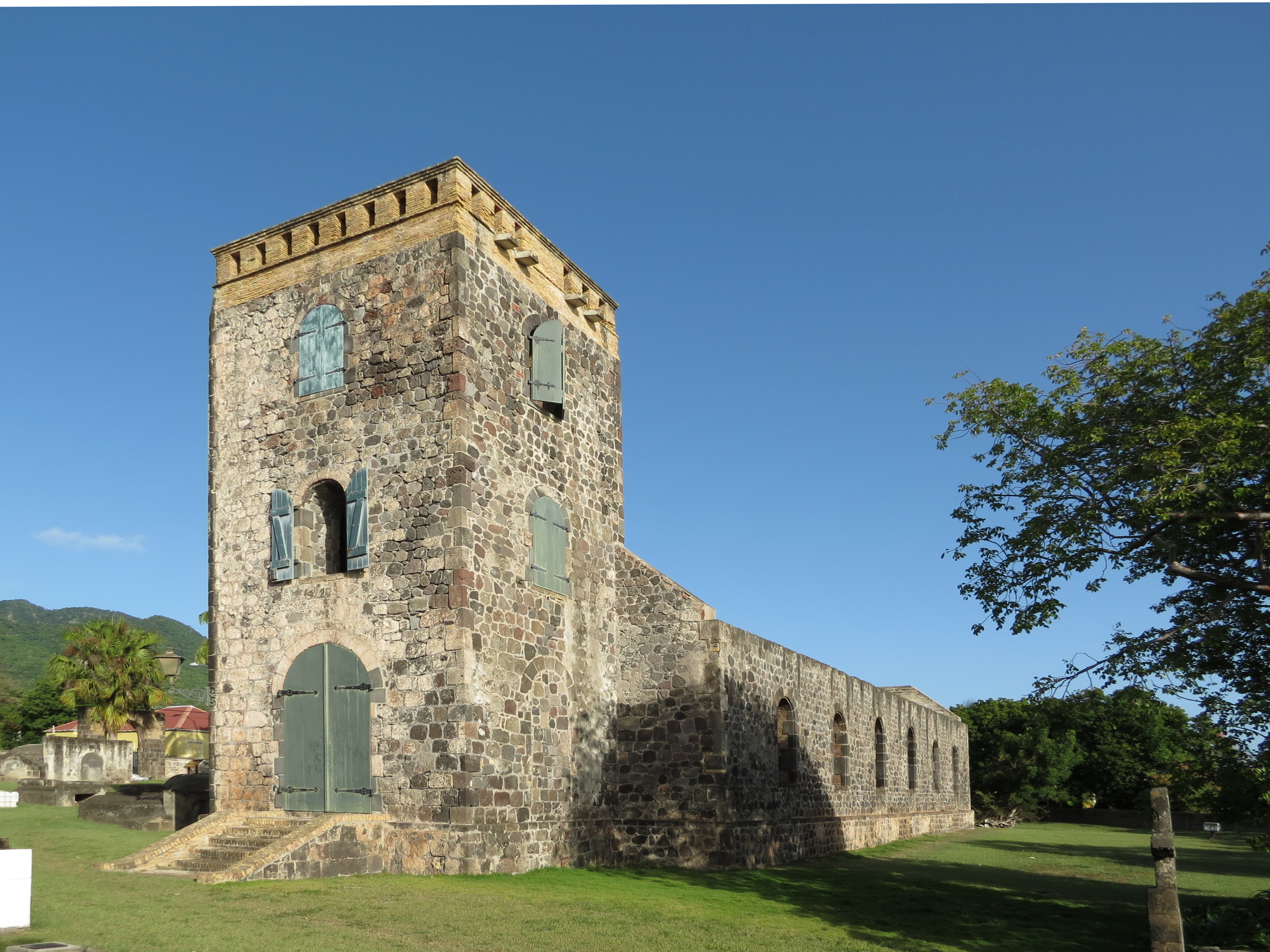 Ruin of Dutch Reformed Church, Oranjestad Sint Eustatius